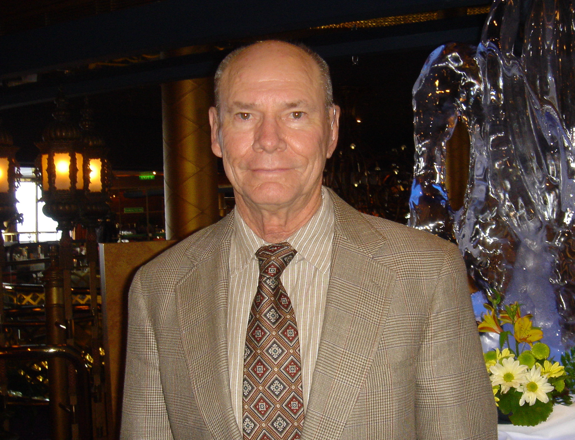 photo of Bob Plemmons